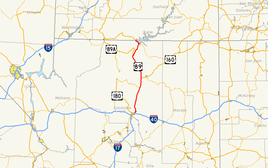 Map of U.S. Route 89 in Arizona